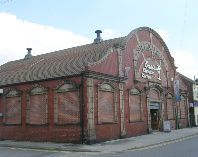 Billiard Hall - off Barnsley Road Now used as the Oasis Christian Centre.